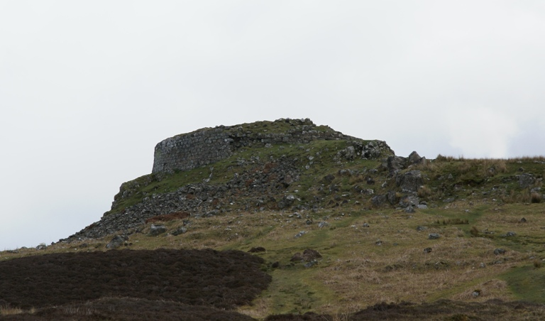 Dun Beag, Skye, Scotland